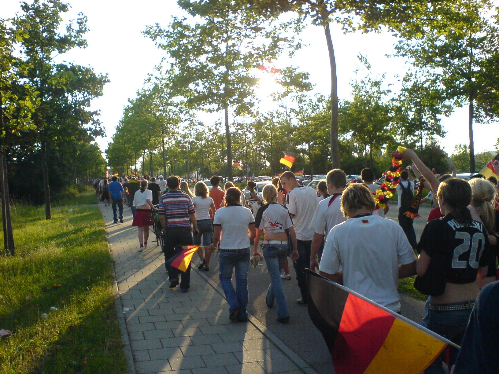 German fans after the match Germany vs. Argentinia, World Cup 2006